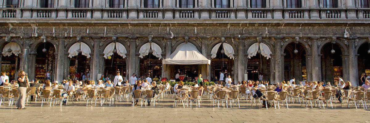 Il Caffè Florian da Piazza san Marco